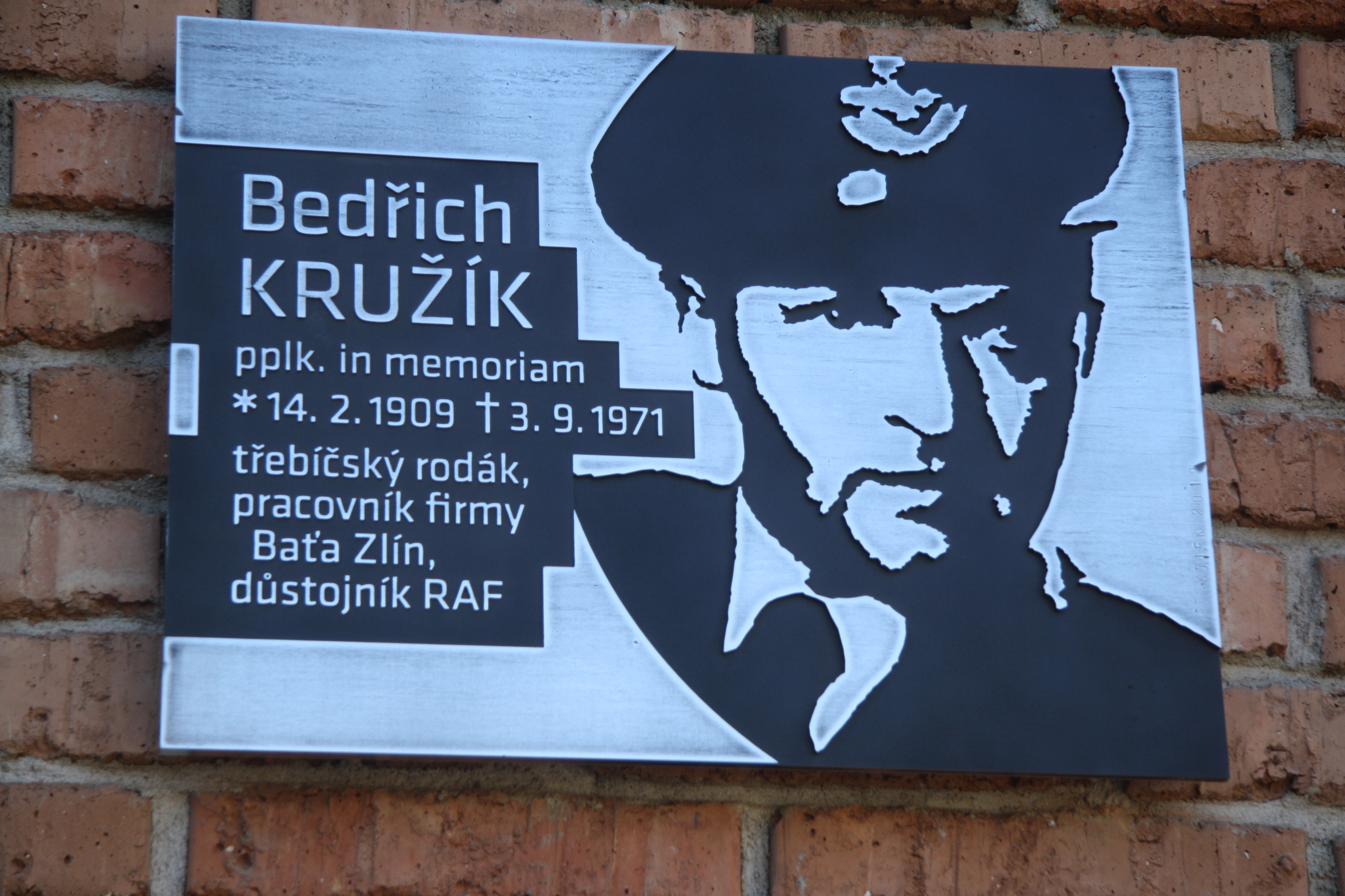 Detail of plaque of Bedřich Kružík at revealing of plaque of Bedřich Kružík in Třebíč, Třebíč District.